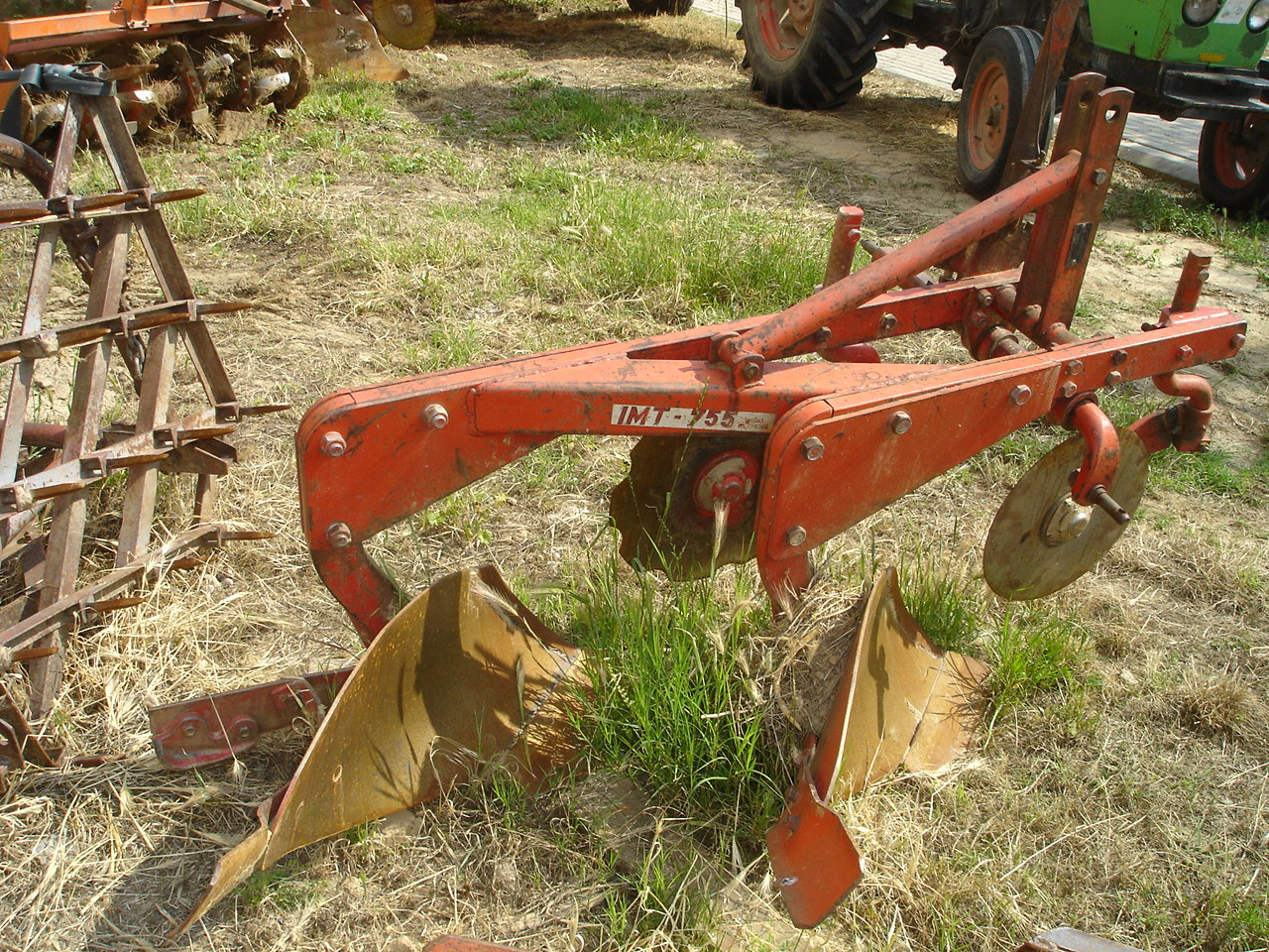 Plough